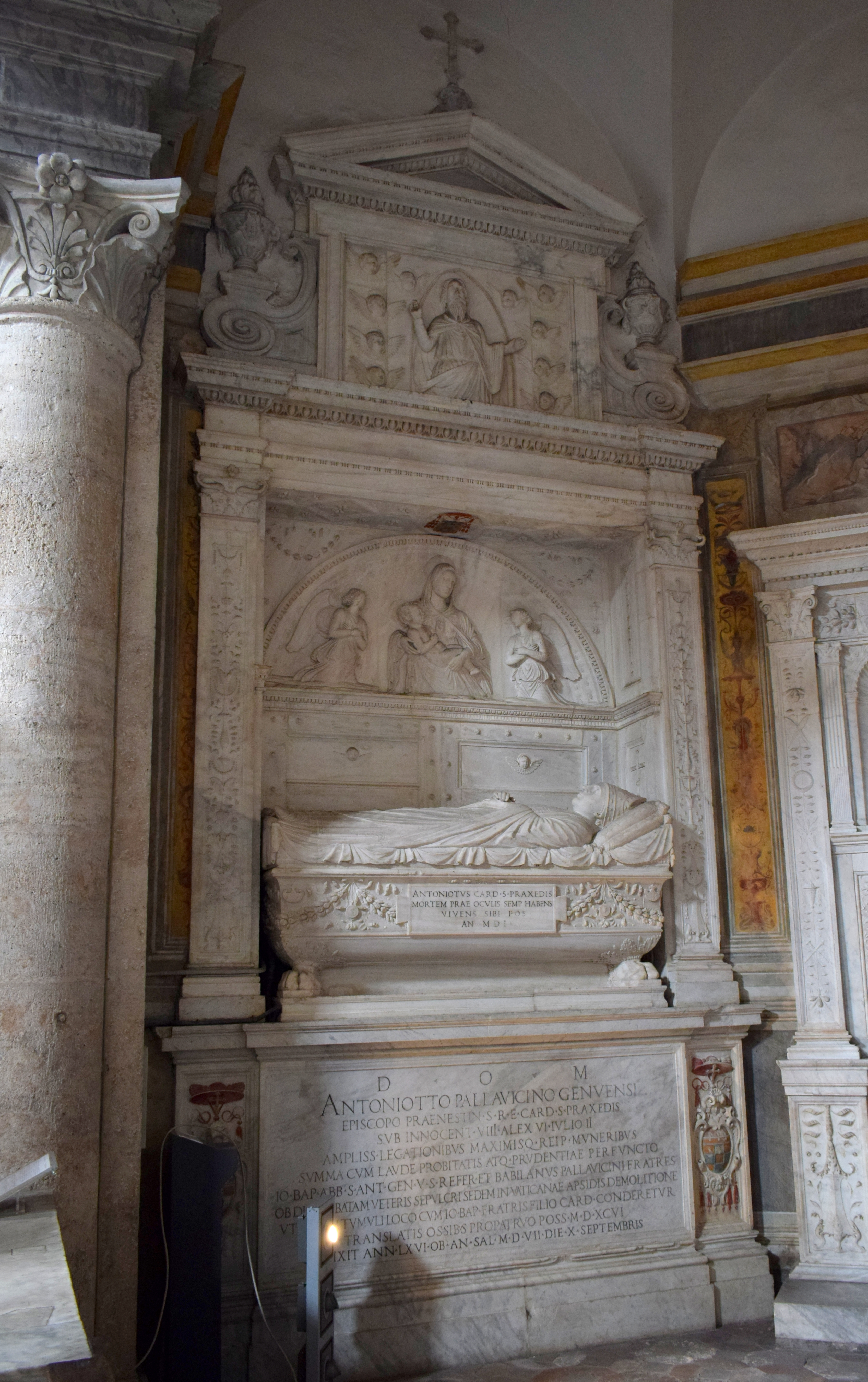 The tomb of Cardinal Antoniotto Pallavicino in the Basilica of Santa Maria del Popolo, Rome. Created by the workshop of Andrea Bregno in 1501.